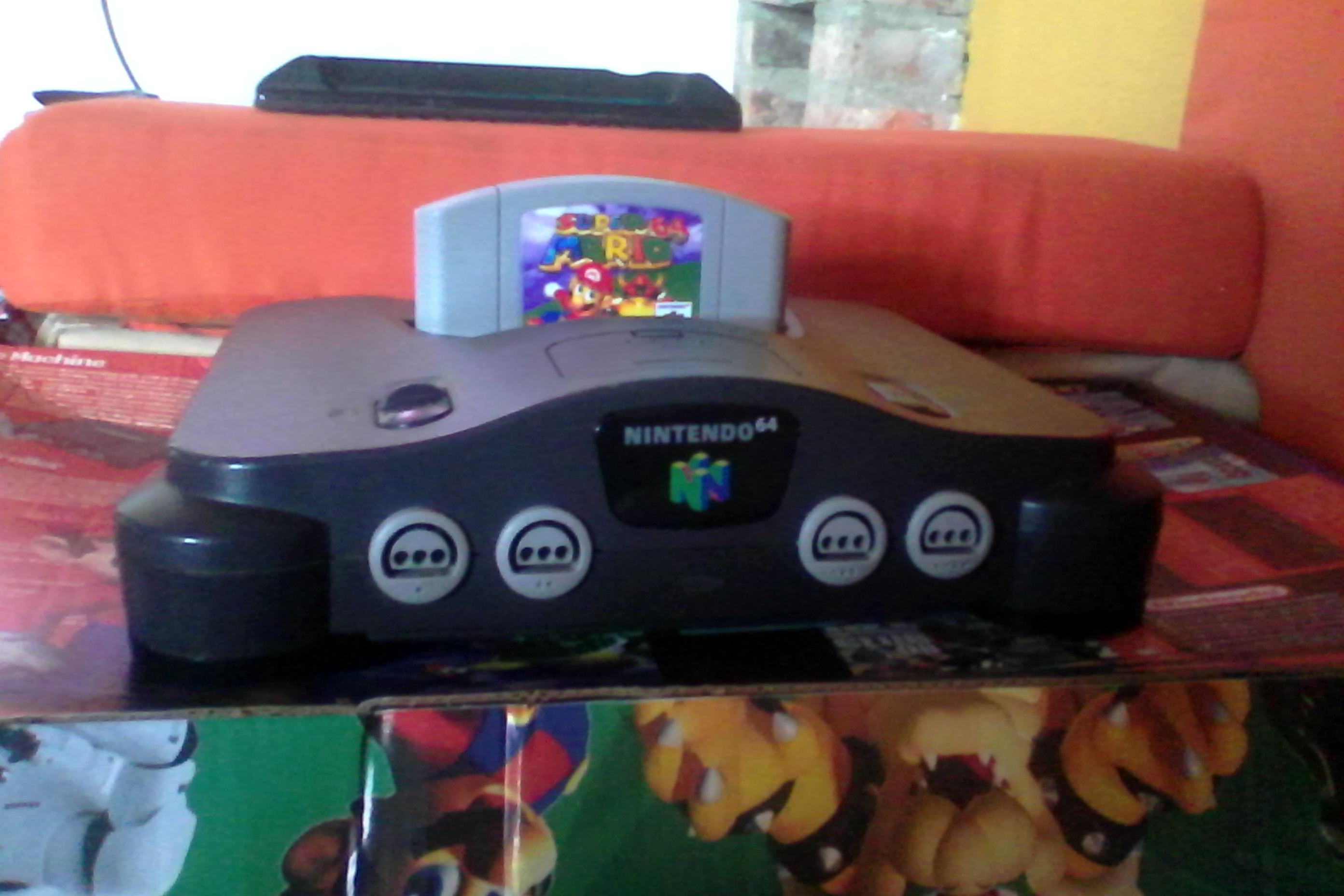 Nintendo 64 con el Cartucho de Super Mario 64 insertado en la consola